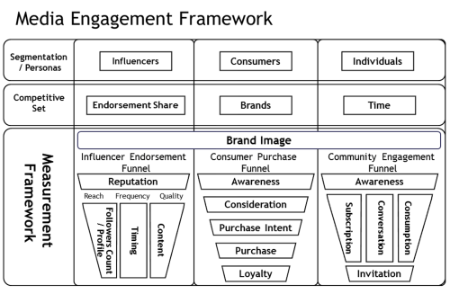 Line art of the Media Engagement Framework, as created / published by Steven Groves and Guy Powell